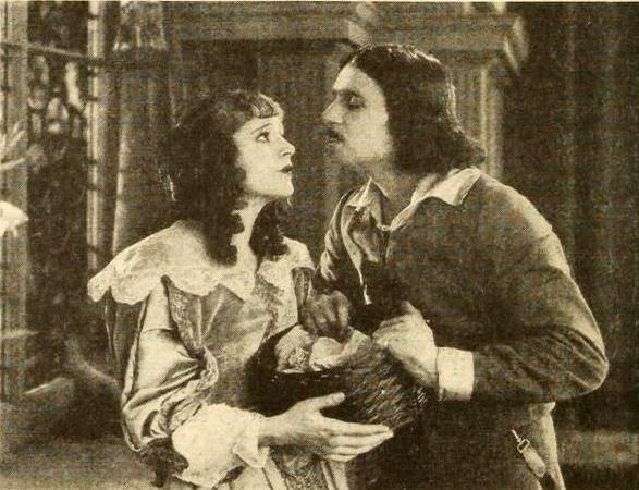 Still from the American film The Three Musketeers with Marguerite De La Motte and Douglas Fairbanks, page 60 of the November Photoplay.